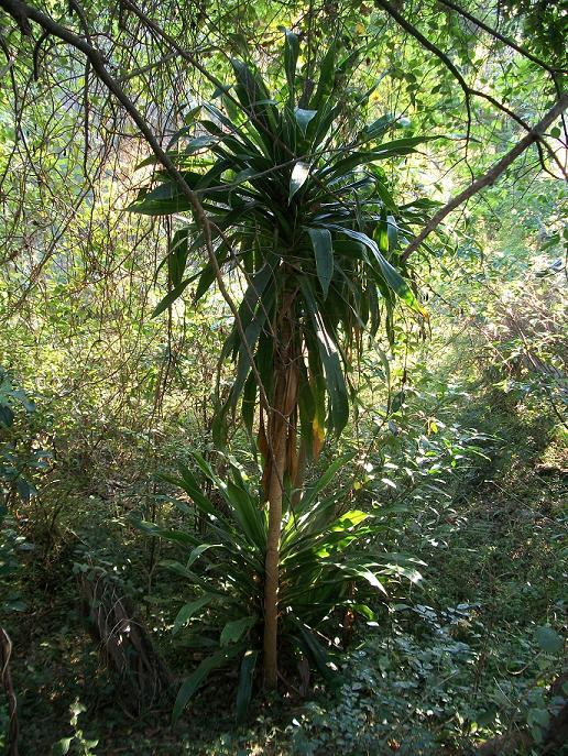 A tall Dracaena aletriformis at Ilanda Wilds.